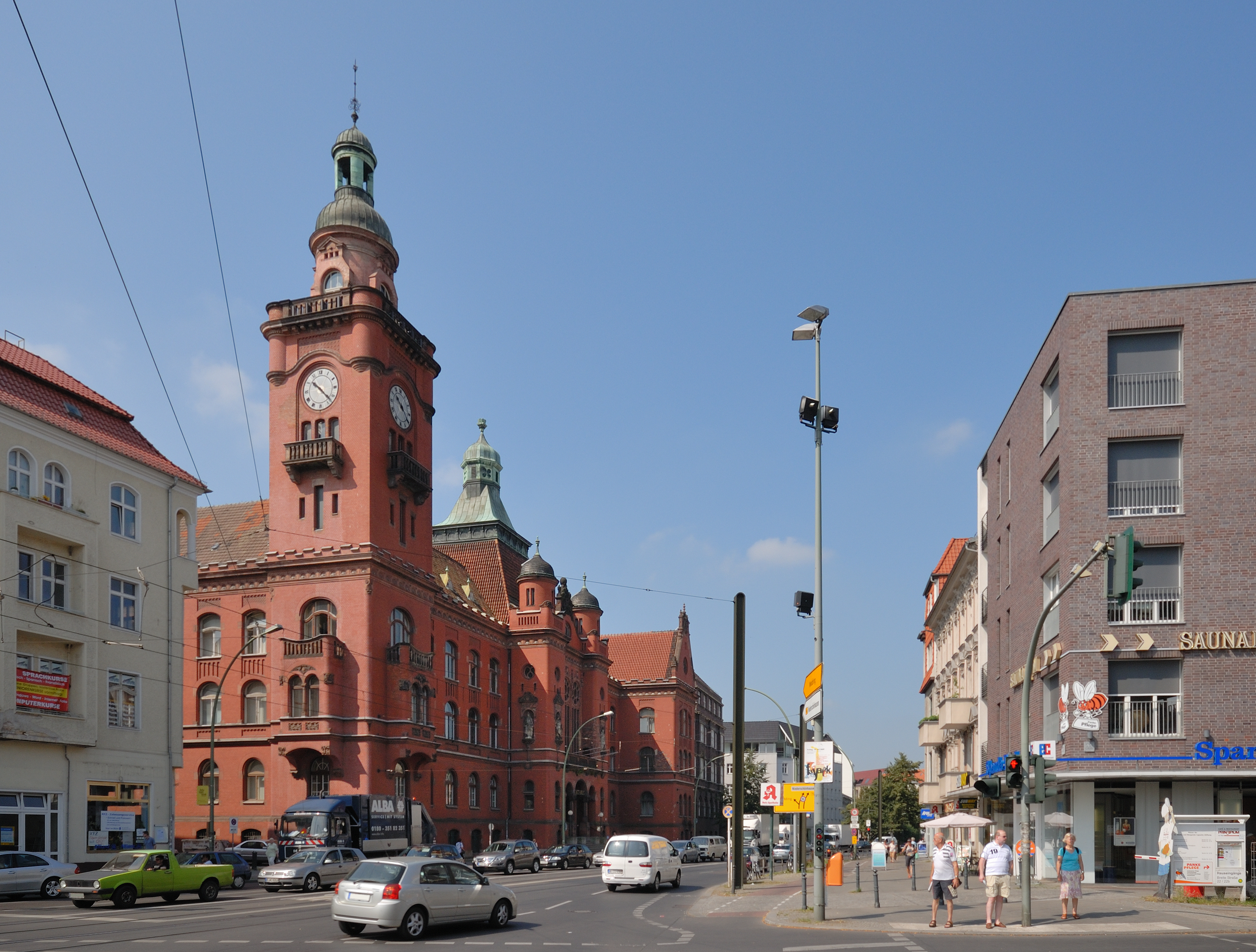 Pankow town hall (red building in the left half).